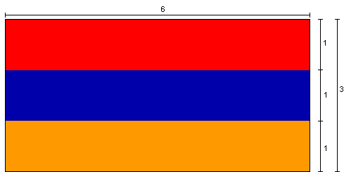 The construction sheet of the national flag of Armenia.